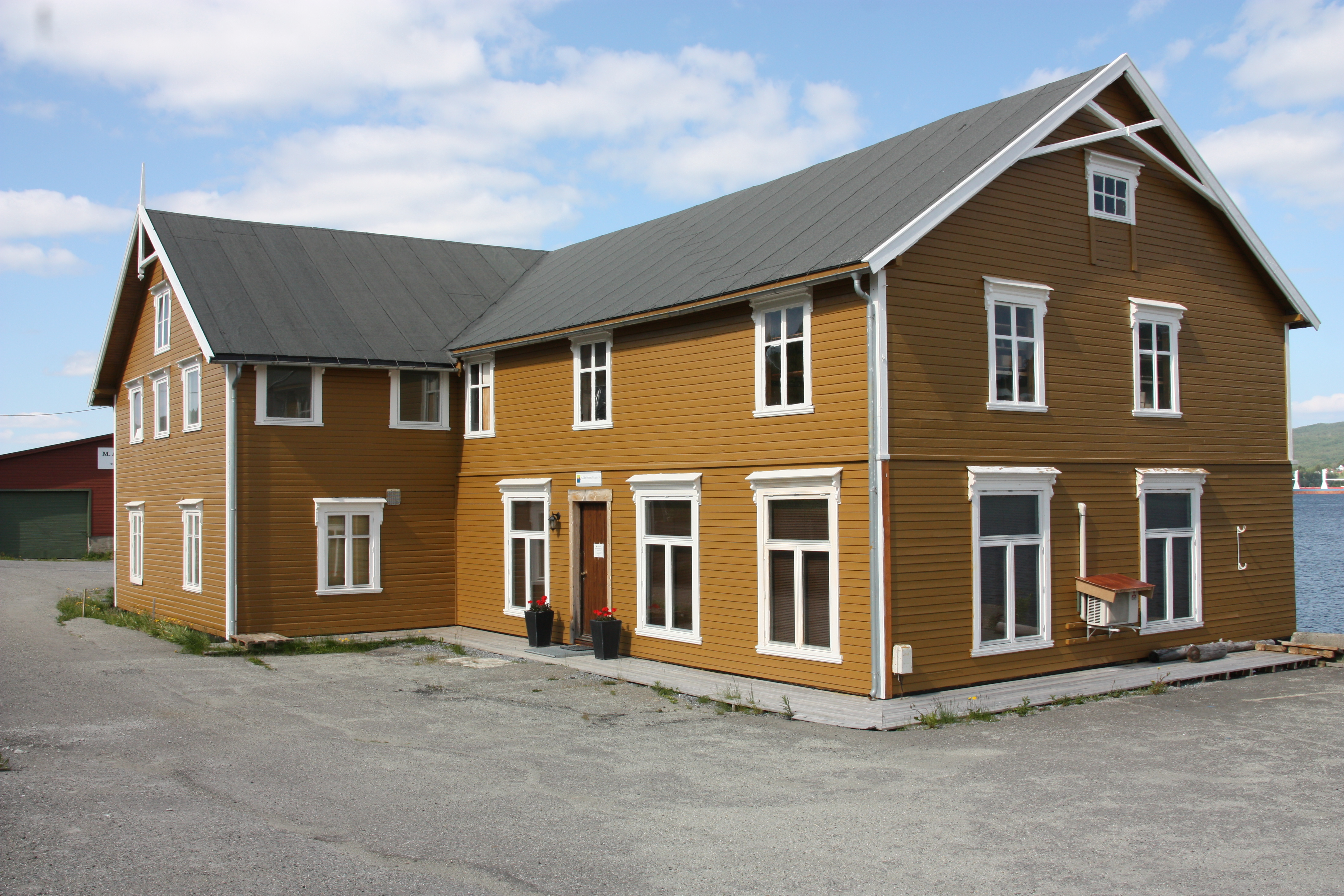 Kramvigbrygga, a part of Midt-Troms museum, seen from the front of the building.